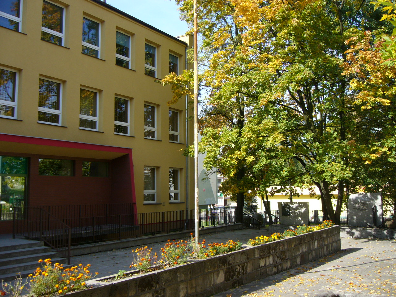 Seconadry school in Boleslawiec, Poland, Lower Silesian Voivodeship